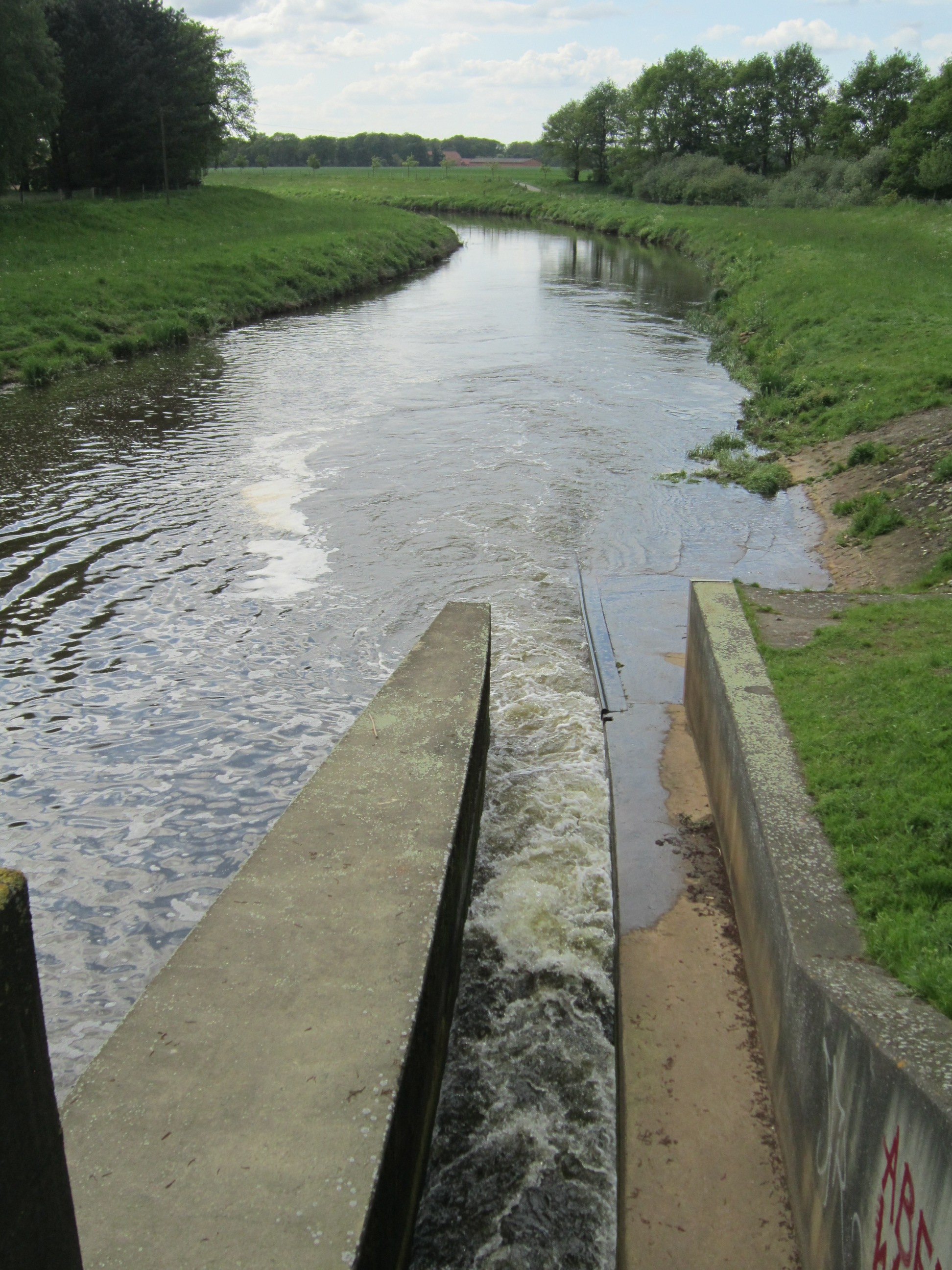 Weir across River Hase ("Brokhagen Stau") near Essen (Oldenburg)